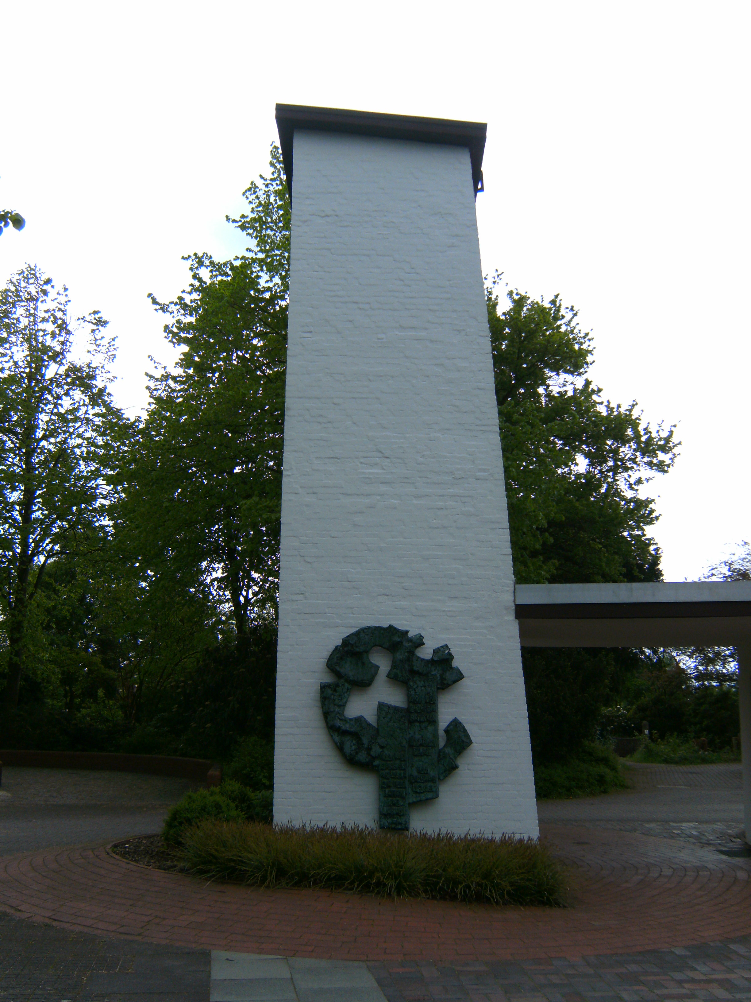 Hamburg-Wilhelmsburg, Germany, Friedhof Finkenriek (cemetery): Tower beneath the chapel with memorial for the victims and helping people of the North Sea flood 1962.